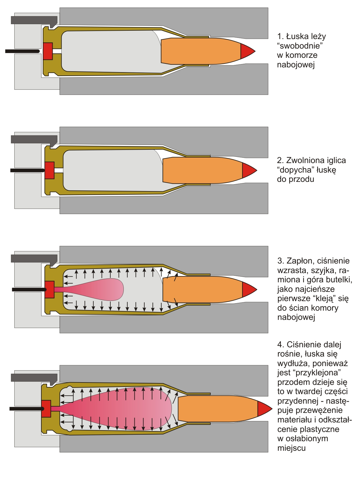 case head separation